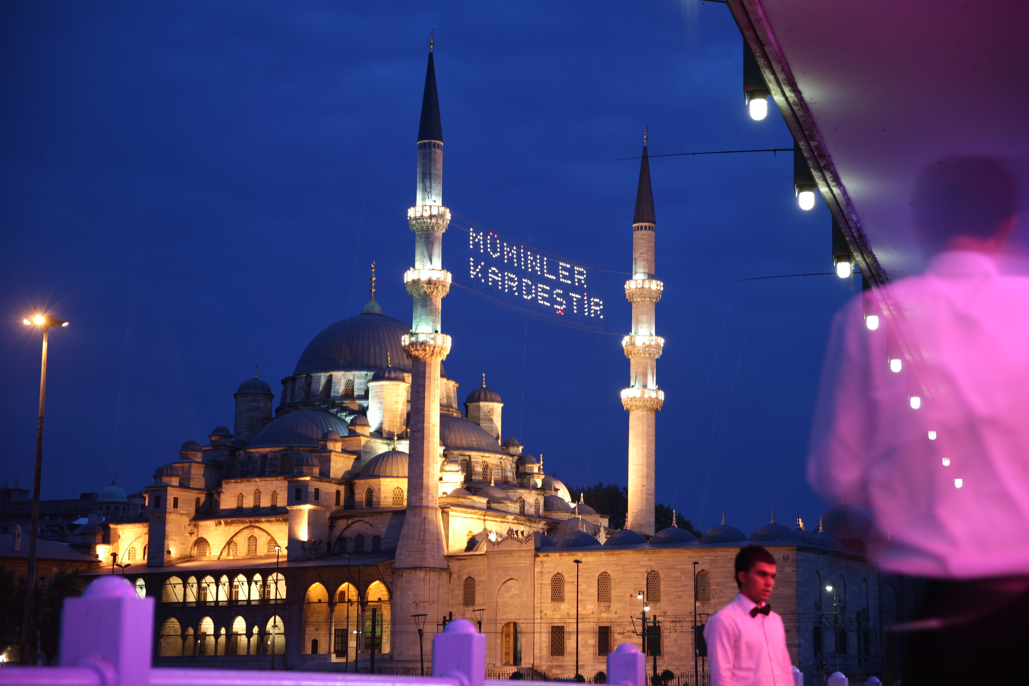 The Yeni Mosque, as seen in evening light from under the Galata Bridge in Istanbul, Turkey. The mosques are particularly well lit during Ramadan. Notice the fishing poles and whispy thin fishing line in the upper right hand side of this shot. Folks on the bridge were fishing right over our heads, hoisting up their ocassional catch while we dined below.